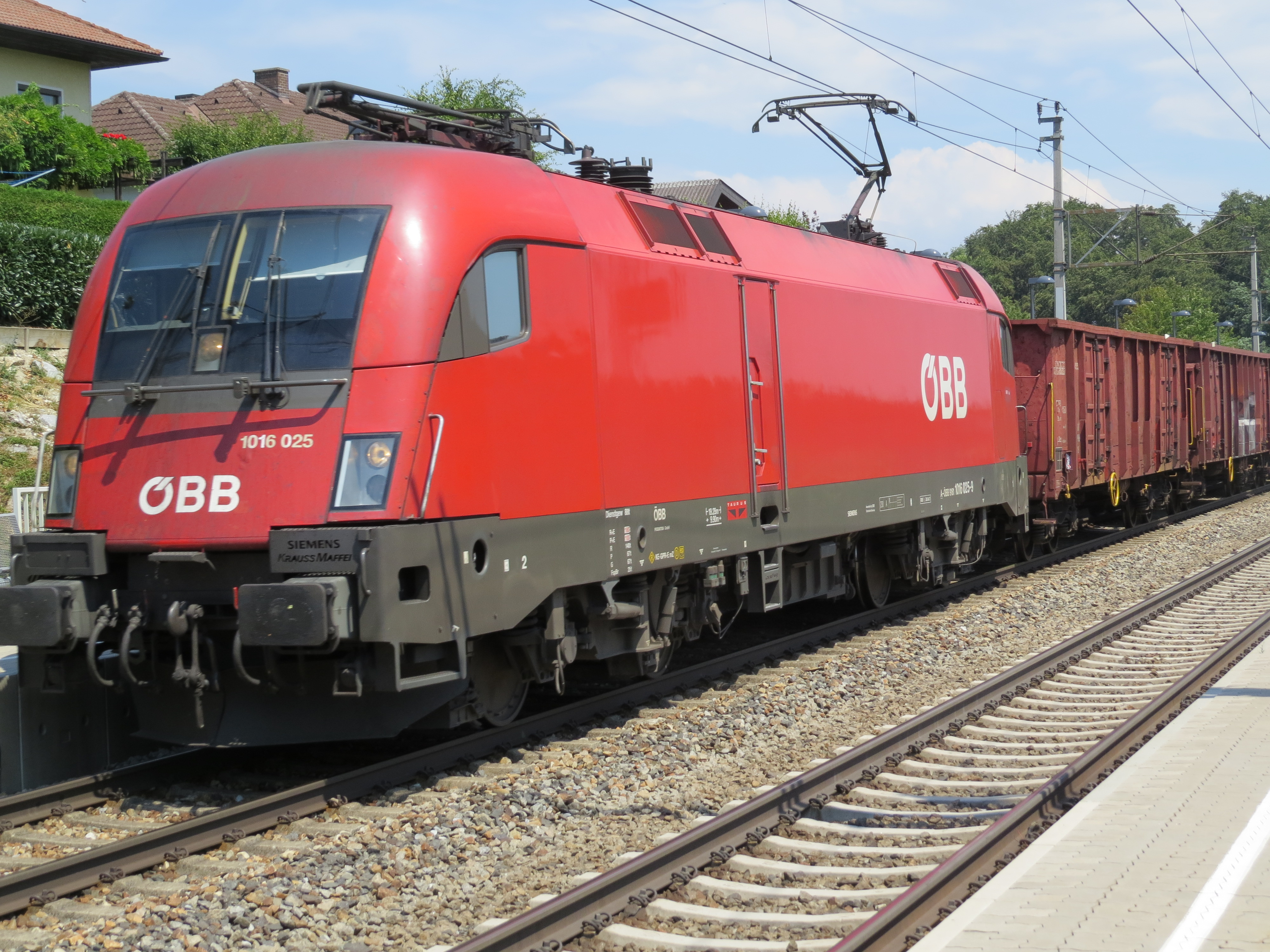 ÖBB 1016 025 at Bahnhof Stadt Haag